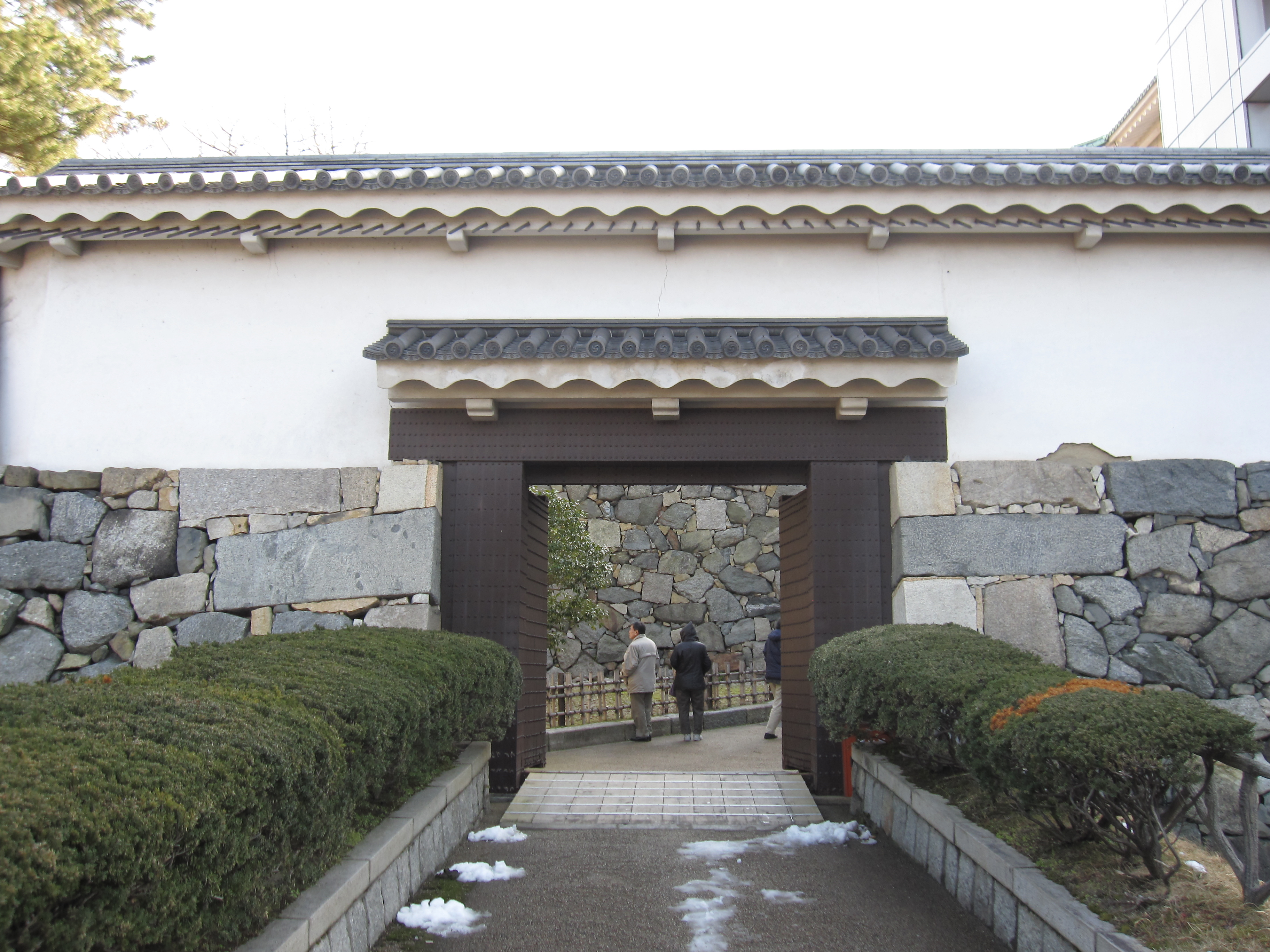 The Fumei Gate (Fumei-mon) is located in the Tamon Wall, which leads into the Honmaru of Nagoya Castle. It was always locked securely and therefore known as "the gate that never opens". The wall is called a "sword wall", because spearheads under the eaves prevented penetration by spies or attackers. The gate was destroyed in the air raid on May 14, 1945. It was reconstructed to its original form in March 1978.